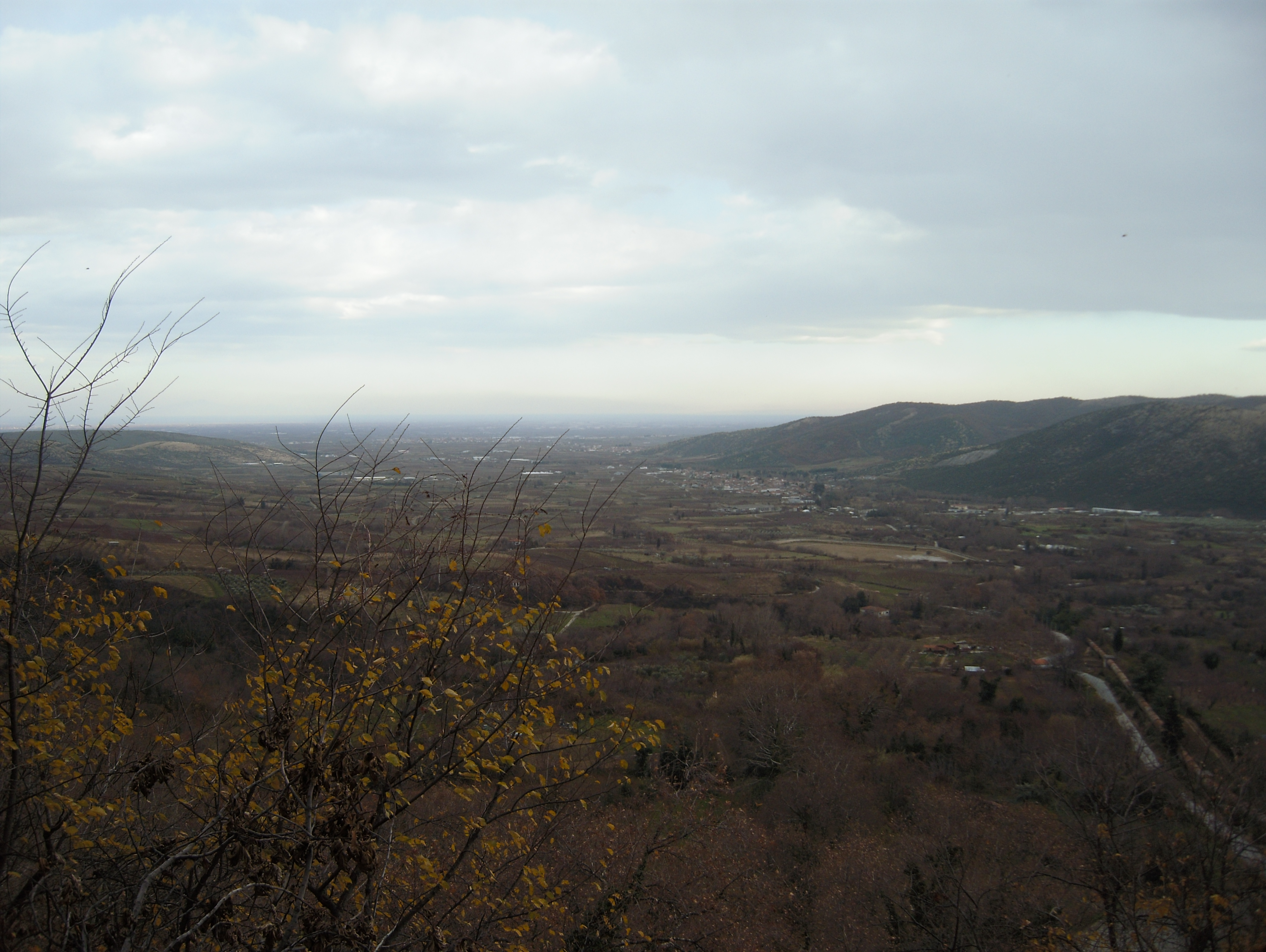 Slanitsa region